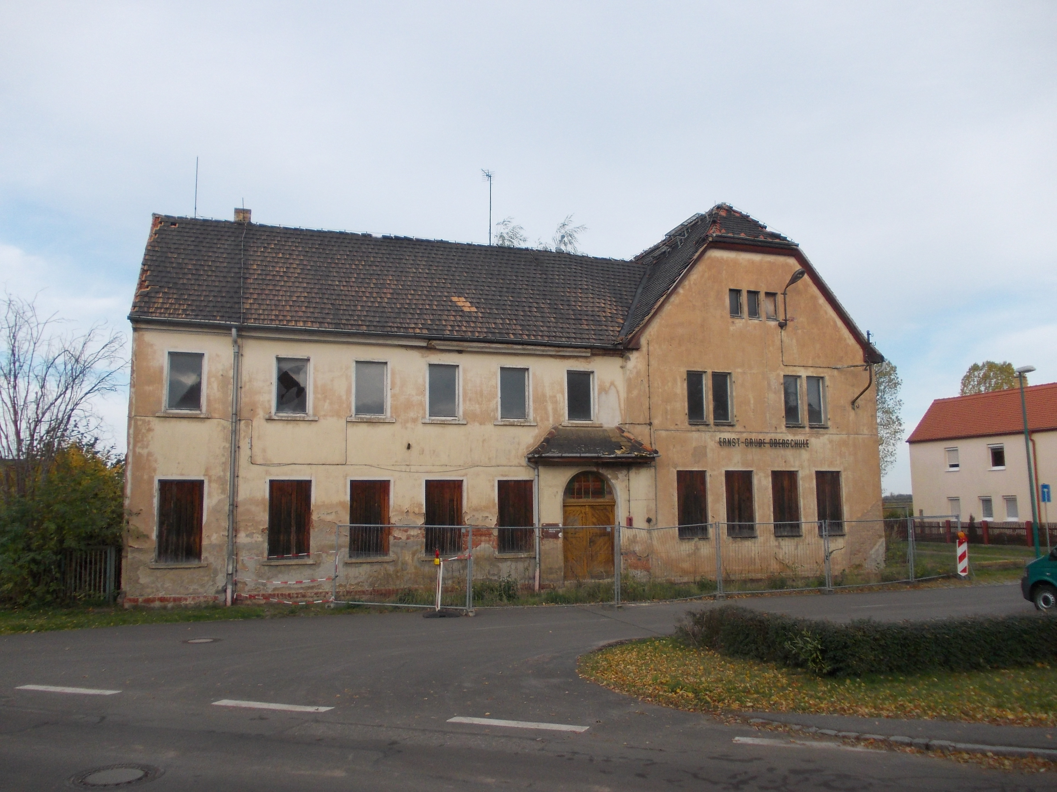 Former school in Grossdalzig (Zwenkau, Leipzig district, Saxony)